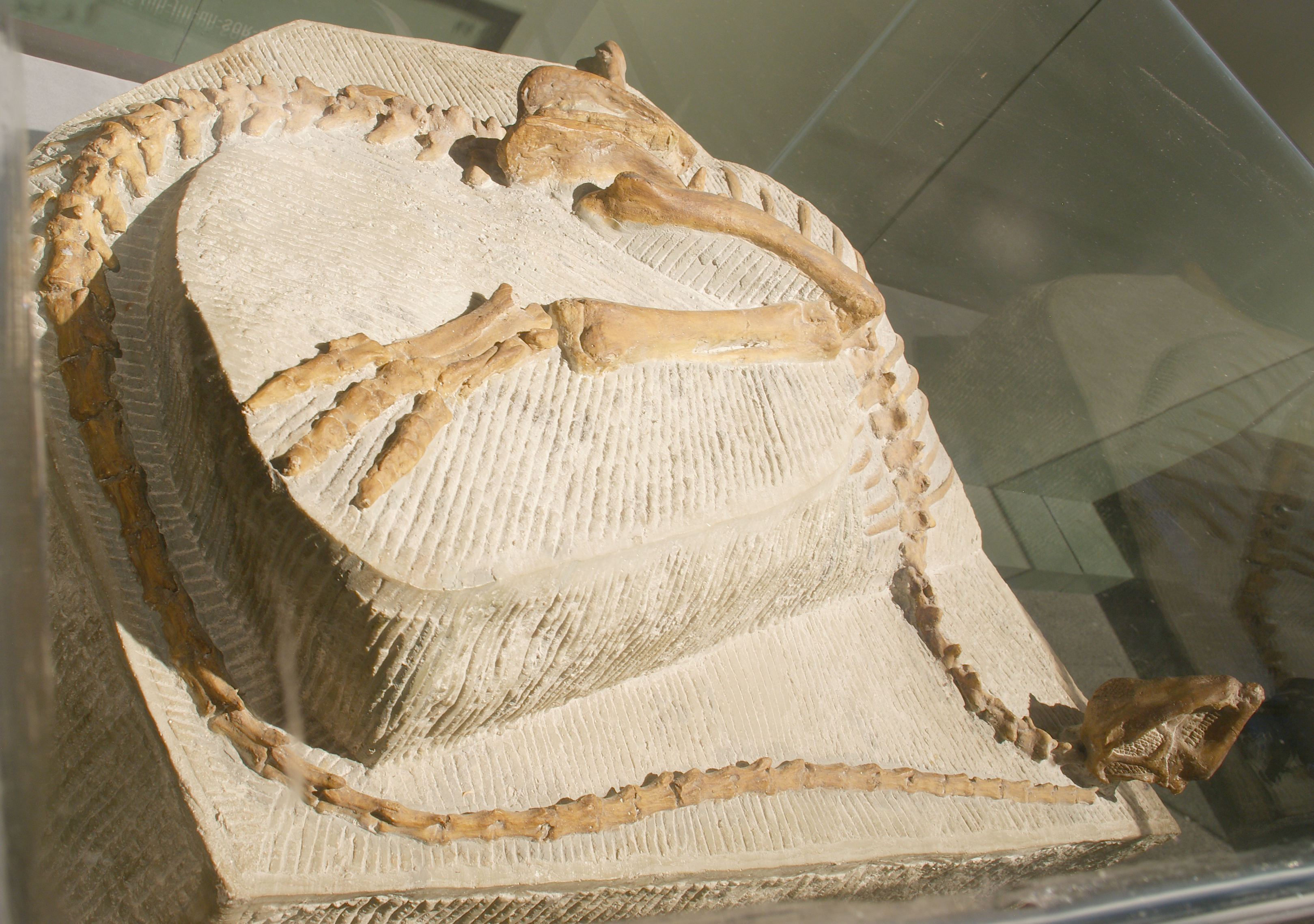 Agilisaurus fossil specimen excavated from the Dashanpu Formation in Sichuan province, China. The fossil was on display as part of a touring exhibition "Dinosaurs Unearthed" shown at Bishop Museum, Honolulu, Hawaii